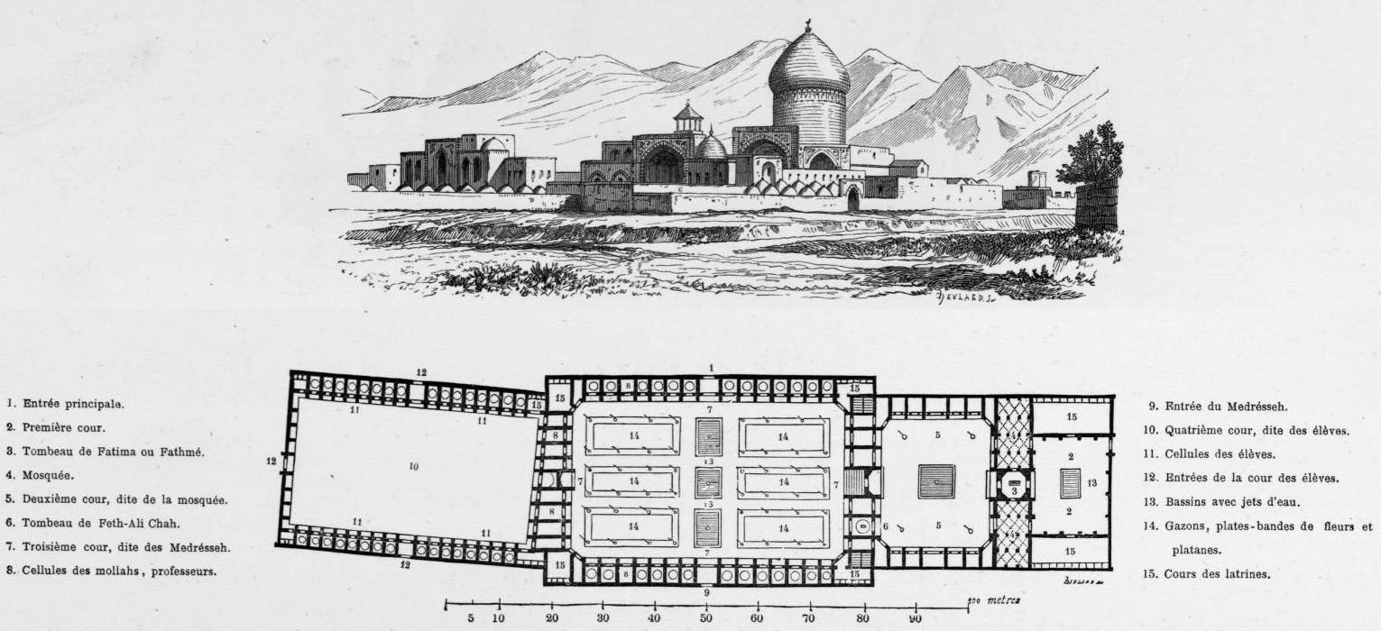 The mosque of Qom (Fatima Masumeh Shrine)